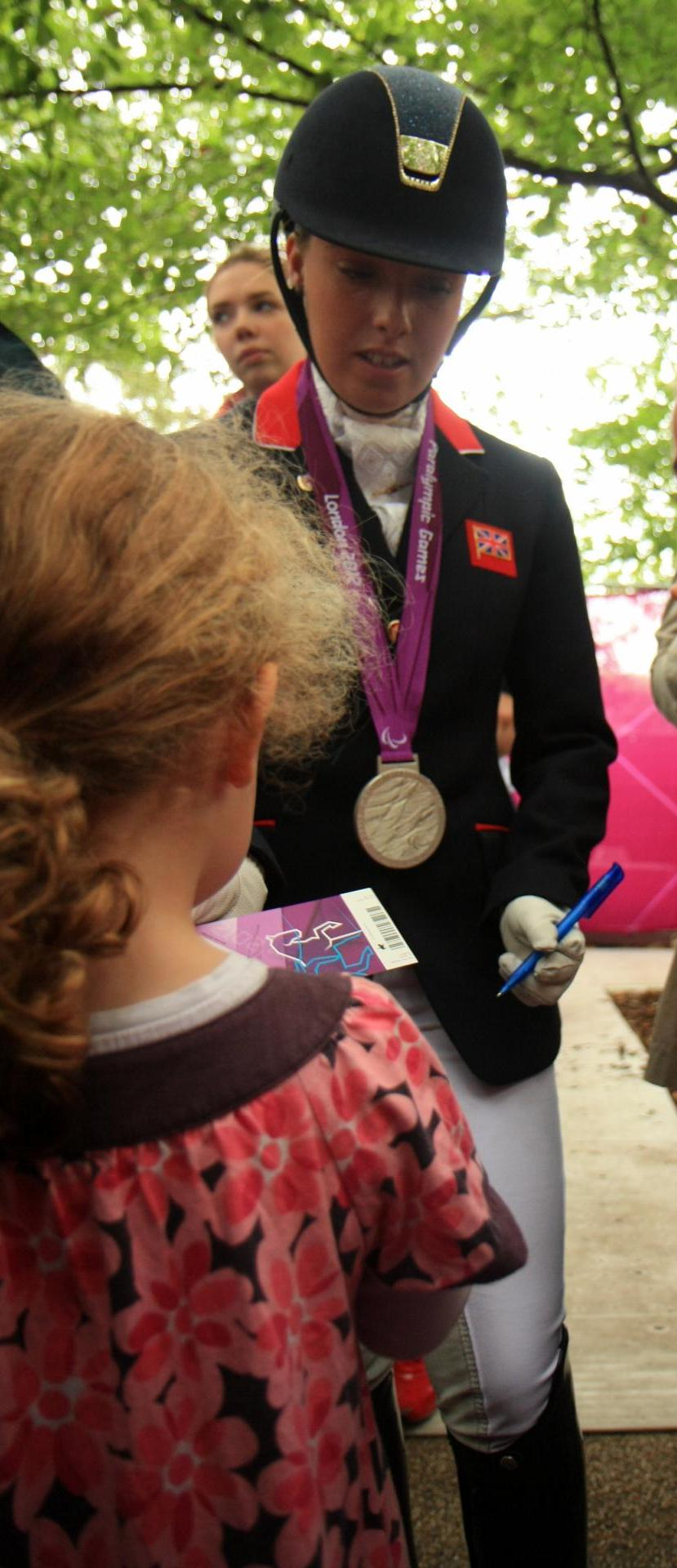 British para-dressage rider Sophie Wells autographing at the 2012 Summer Paralympics.